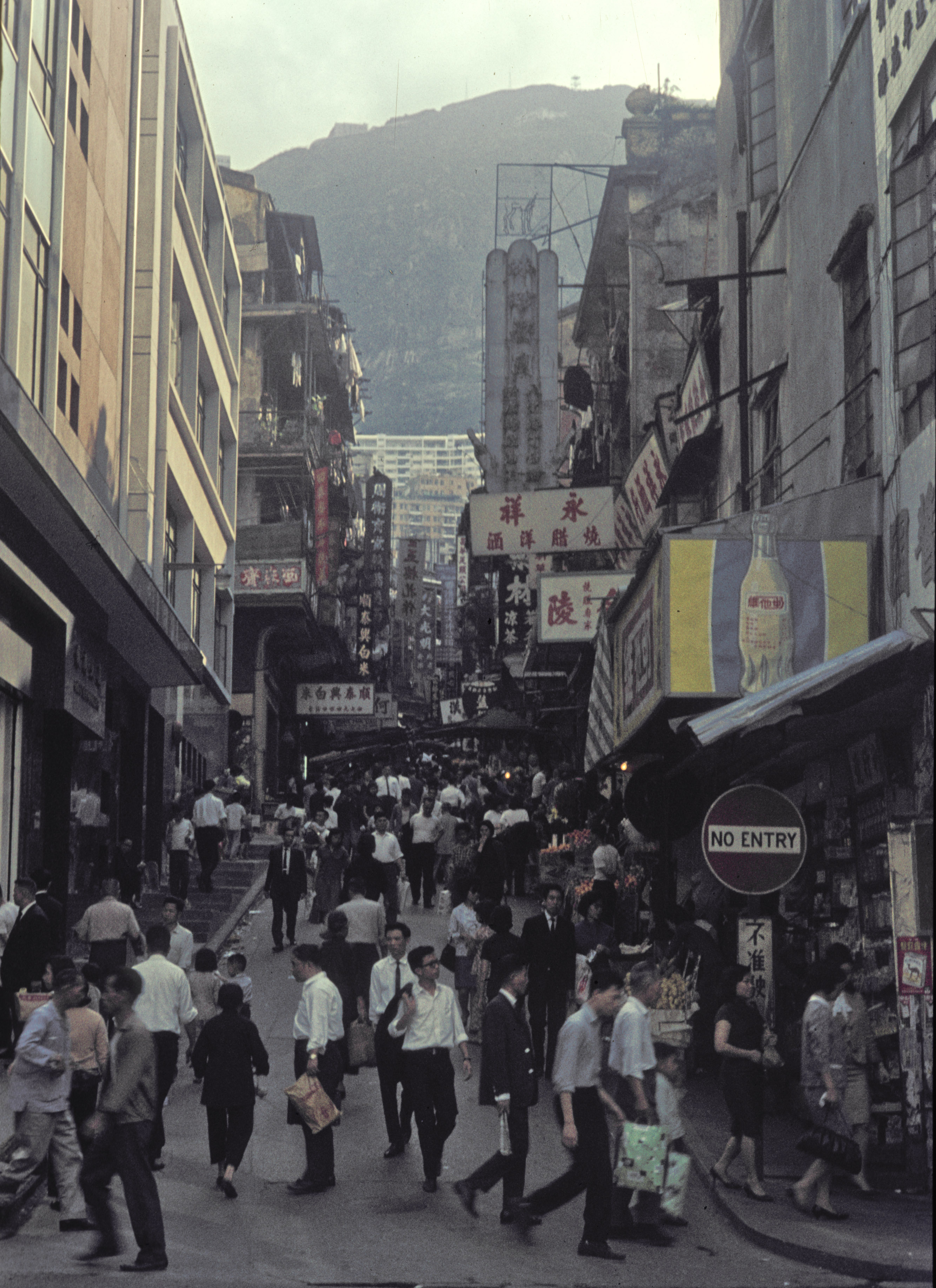 Hong Kong. Probably Cochrane Street viewed from Queen's Road Central (see [1])